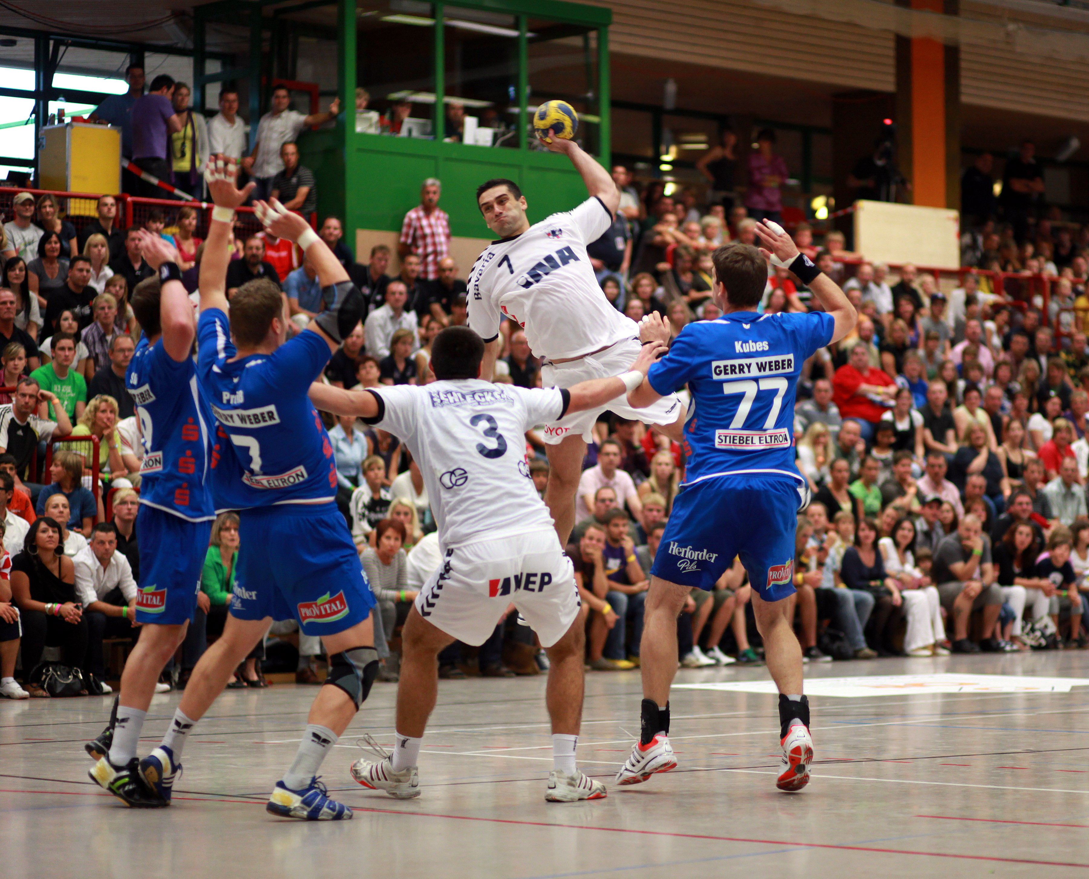 Kiril Lazarov, Macedonian handball player, playing for RK Zagreb, on August 22nd, 2009 in Ehingen (Germany), during the Schlecker Cup 2009.